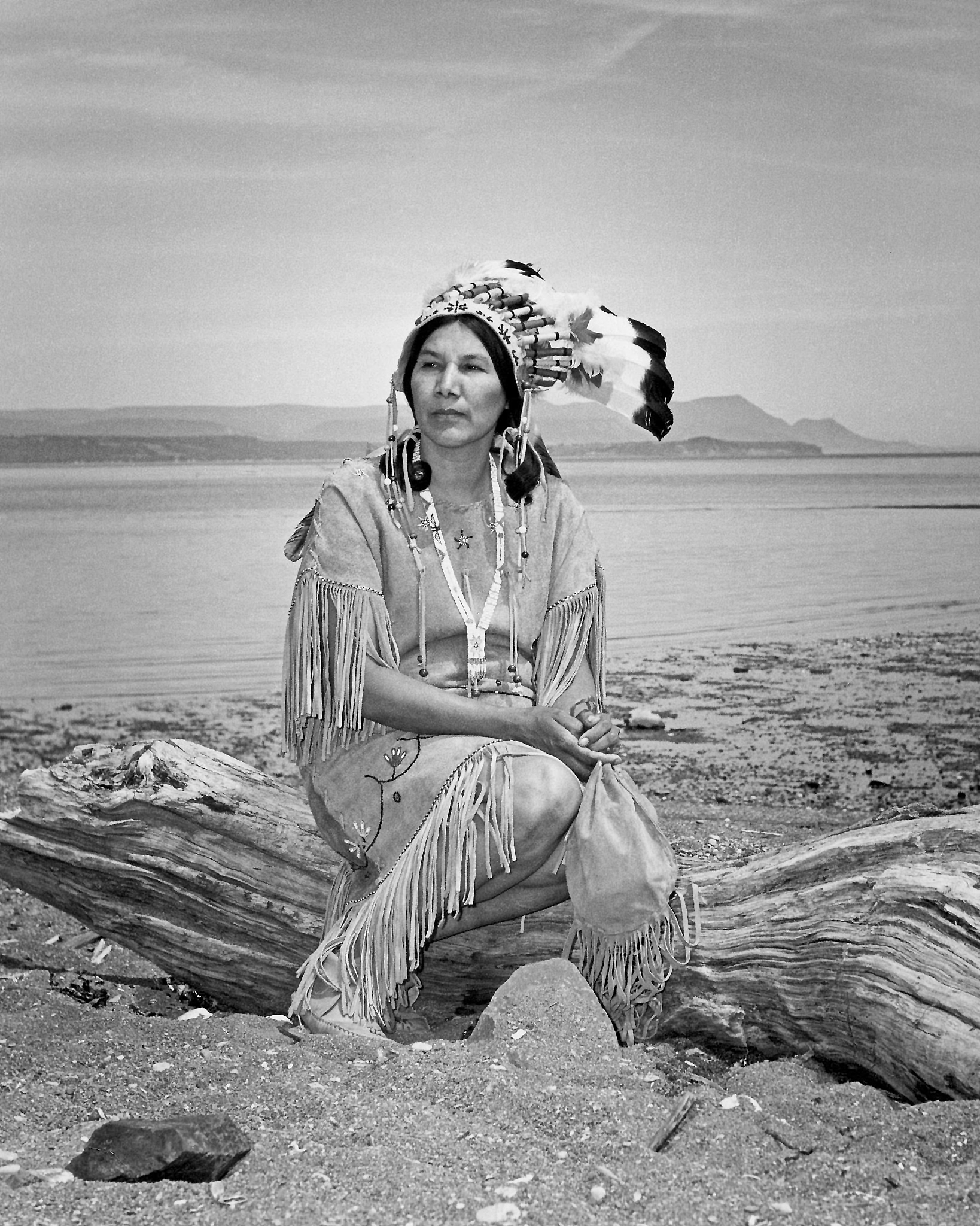 PLEASE, NO invitations or self promotions, THEY WILL BE DELETED. My photos are FREE to use, just give me credit and it would be nice if you let me know, thanks. Found this picture while cleaning up. It is the first picture that I had published in a national newspaper, The Star Weekly, on September 4, 1971. Eel River Bar, New Brunswick, Canada Her name is Margaret LaBillois and was the newly elected chief of the Micmac Indians on Eel River Bar reserve near Dalhousie, New Brunswick. She said she was on the warpath against injustice. Margaret LaBillois, Eel River Bar (1998 recipient of the Order of Canada)(Order of New Brunswick recipients 05/08/01) In 1939, Margaret LaBillois became the first resident of Eel River Bar to graduate from high school. In 1982, she graduated from Lakehead University with an Honours Degree in Native Languages. In 1970, LaBillois was elected as Chief of Eel River Bar First nations, making her the first female chief in New Brunswick. She is a 1998 recipient of the Order of Canada in recognition of her leadership qualities and significant demonstration of traditional skills. She also served in the RCAF as a nurse during World War II. The Star Weekly, published in Toronto, fell victim to television and the newspapers' weekend supplements, and it ceased publication in 1973.